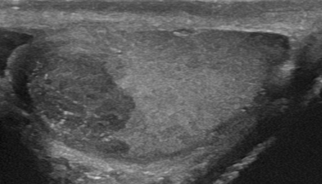 most likely a seminoma (no pathology)